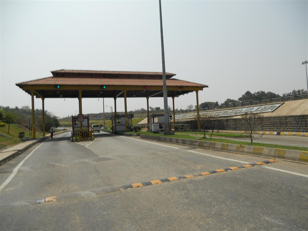 NICE Toll Gate